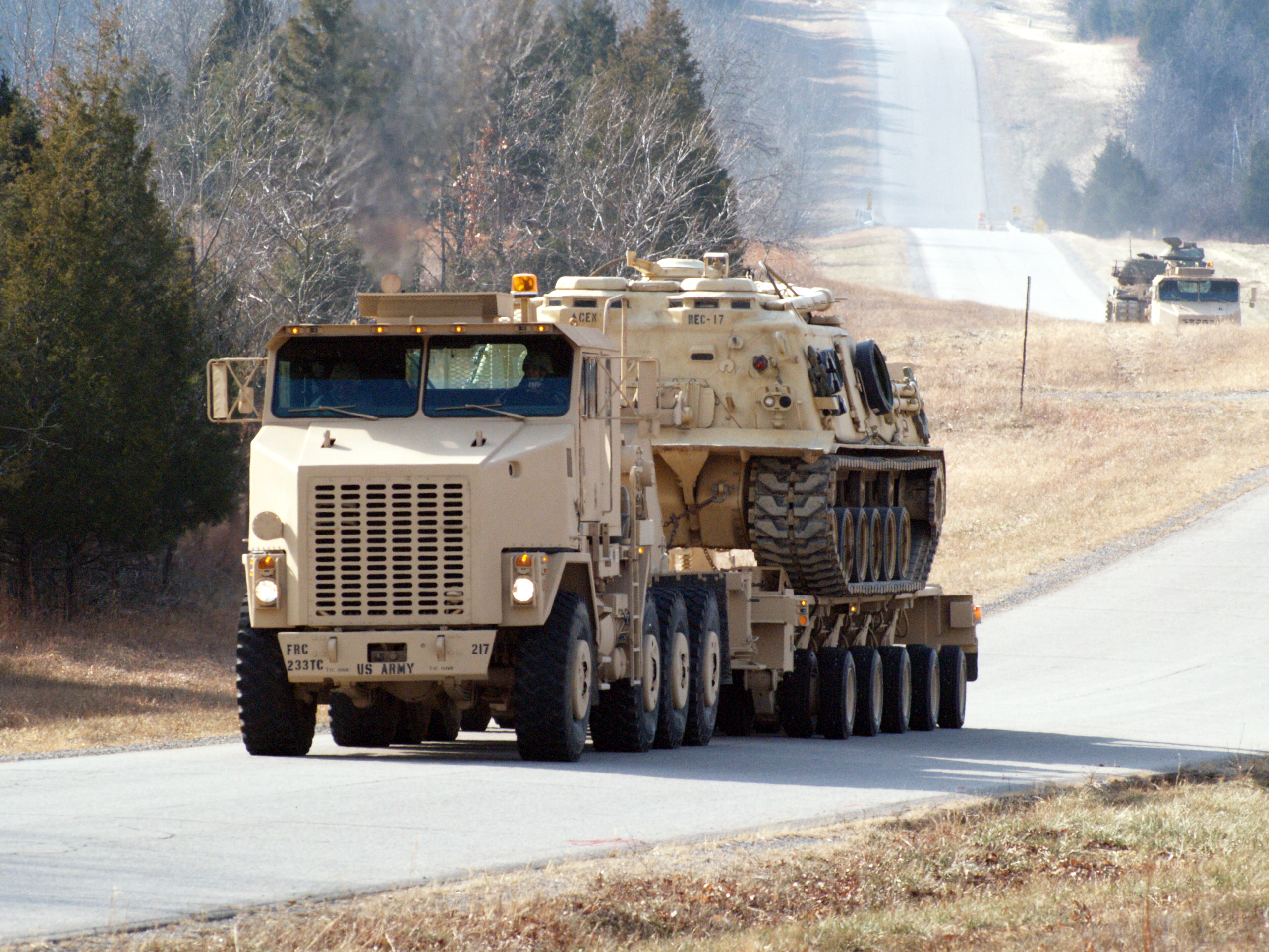 Heavy equipment transporters from Fort Knox's 233rd Transportation Company transported old tanks in an initiative to improve several of the post's ranges last week. The mission also gave the 233rd Trans. Co. Soldiers experience with transporting different types of equipment. This mission also comes as preparation for the movement of Fort Knox's Patton Museum. In the movement of the Patton Museum, the 233rd Trans. Co. would have a key role in the movement of historical and heavy equipment while also receiving key operational training. (U.S. Army photo by Spc. Michael Behlin)